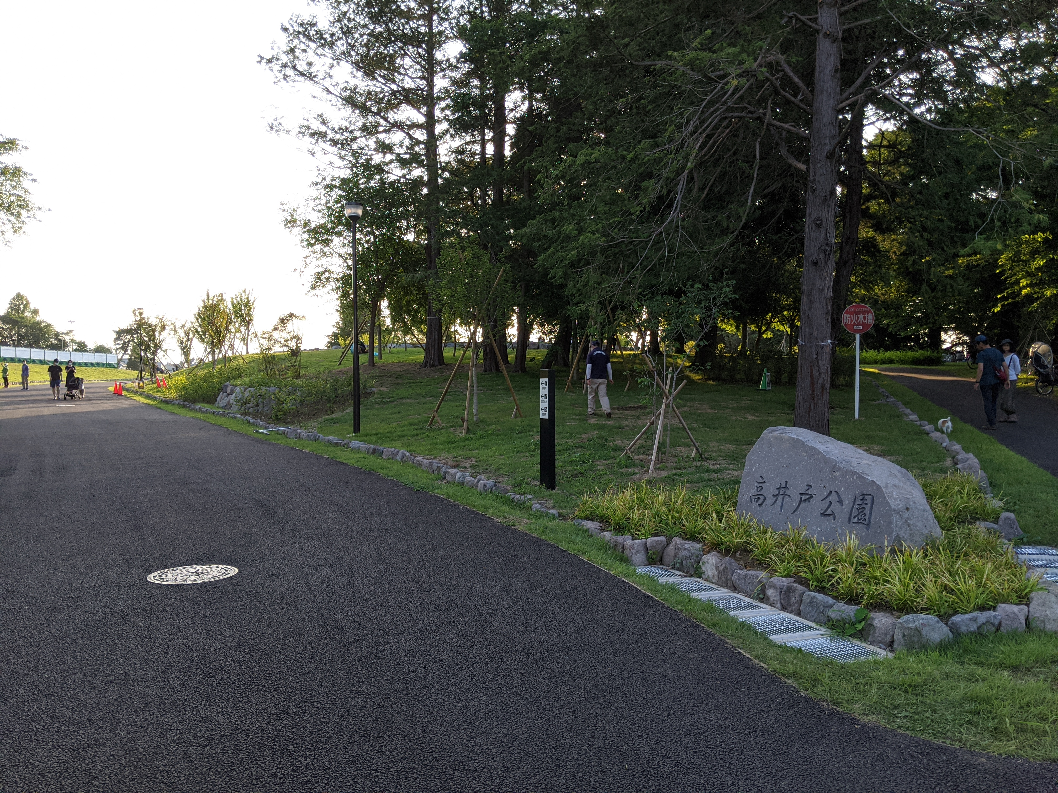 Fujimigaoka Entrance of the Takaido Park